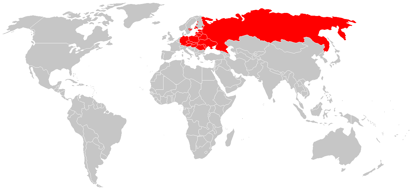 Incidence of Tick-borne Encephalitis